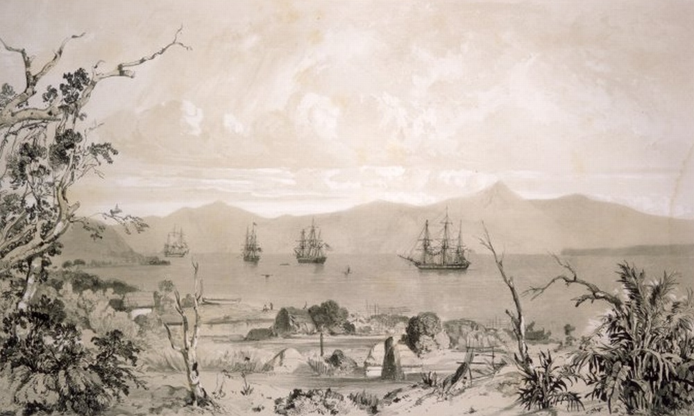 Four European sailing ships, possibly supposed to be of the French explorer Jules Dumont d'Urville, in Akaroa Harbour, New Zealand, some time in the early 19th century. Some Maori whare are visible in front. Extended information on origin webpage reads: Le Breton, Louis Auguste Marie, 1818-1866 :Baie d'Akaroa (Nouvelle-Zelande). / Dessine par L. Le Breton. Lith. par Sabatier. Paris. Gide Editeur. Imp. Lemercier, Paris, [1846]. / Reference number: PUBL-0028-185 / 1 b&w art print(s). Lithograph, black and white, 261 x 442 mm. Horizontal image. / French / Part of Dumont d'Urville, Jules Sebastien Cesar, 1790-1842 :Voyage au Pole Sud et dans l'Oceanie ... 1838 - 1842. Atlas pittoresque. Paris, A. Gide, 1846. / (PUBL-0028) Drawings and Prints Collection / Scope and contents: Shows a view of the harbour with four sailing ships anchored offshore. The shore in the foreground shows native vegetation, some Maori whare and lagoons.